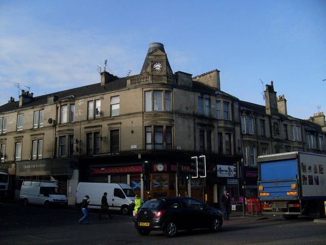 The Clock Inn Public house on Cambuslang's Main Street.